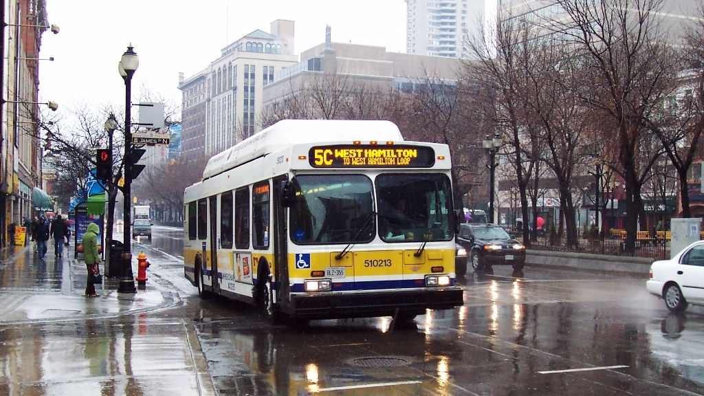 Hamilton (ON) Street Railway New Flyer C40LF bus 510213 in downtown Hamilton, ON. This version has been very simply edited to trim excess asphalt at the bottom and is now presented in a 16x9 widescreen format.